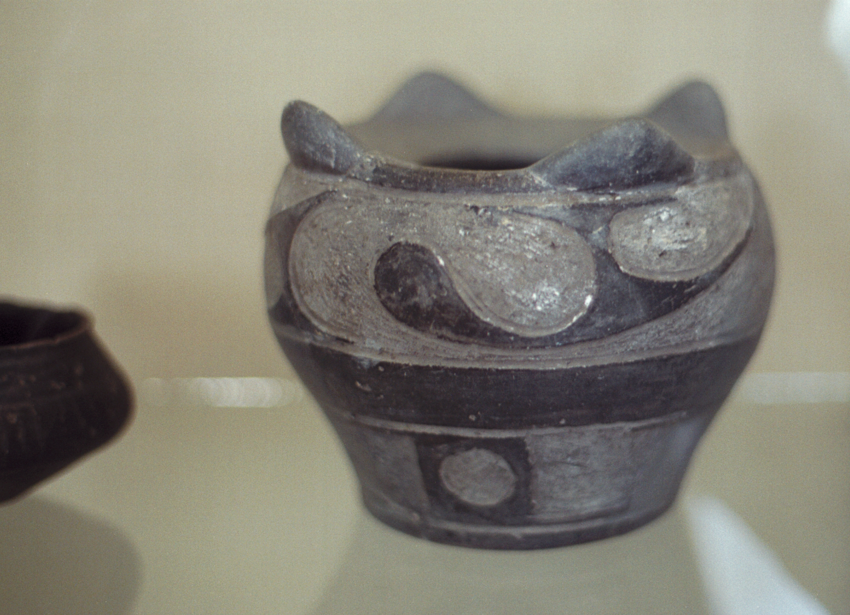 Excellent pottery vessel. Chalcolithic, 4500-4000 BC. Varna Archaeological Museum.